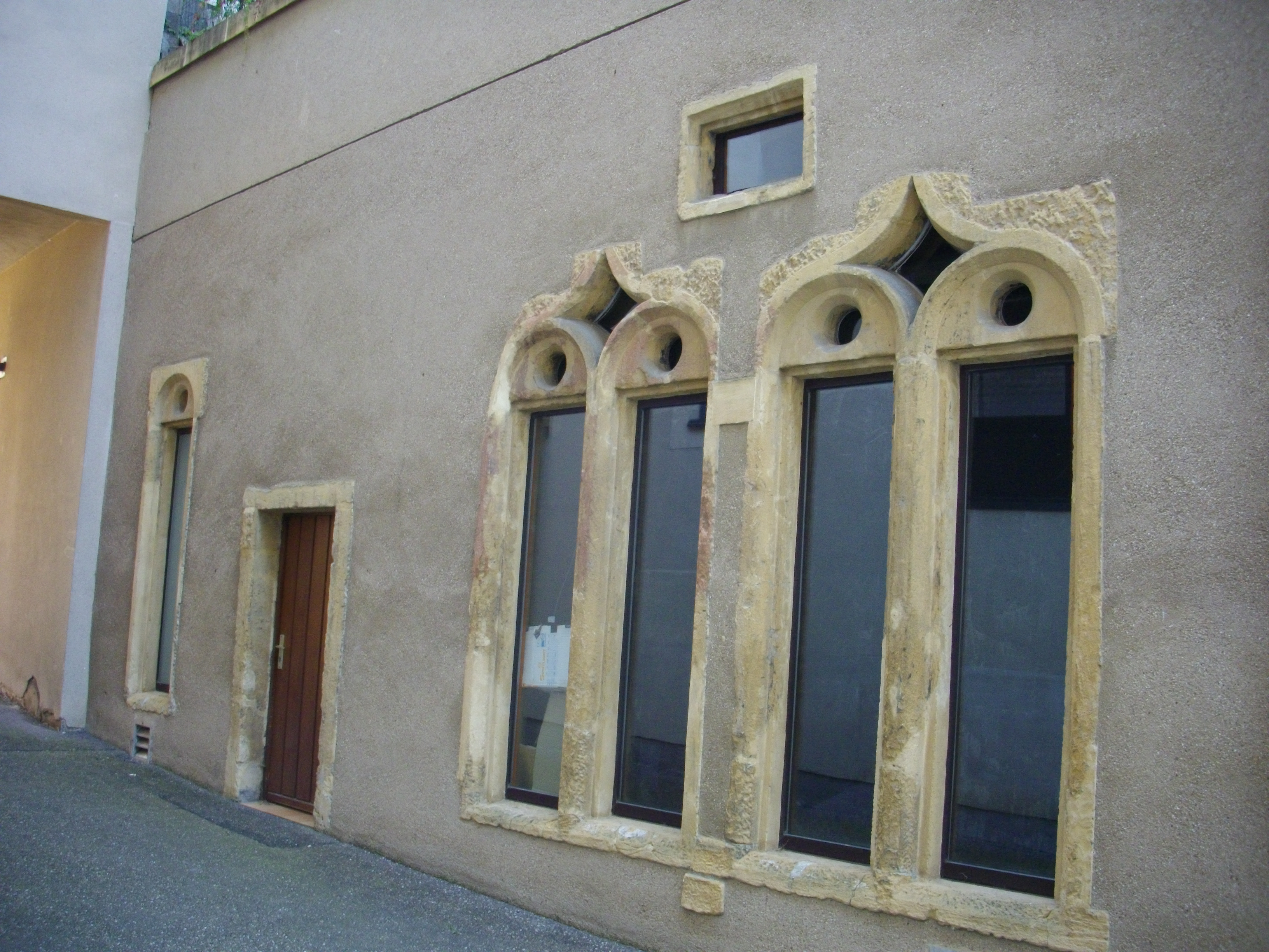 Remains of the the "Petit-Saint-Jean" chapel in Metz (Moselle, France) .